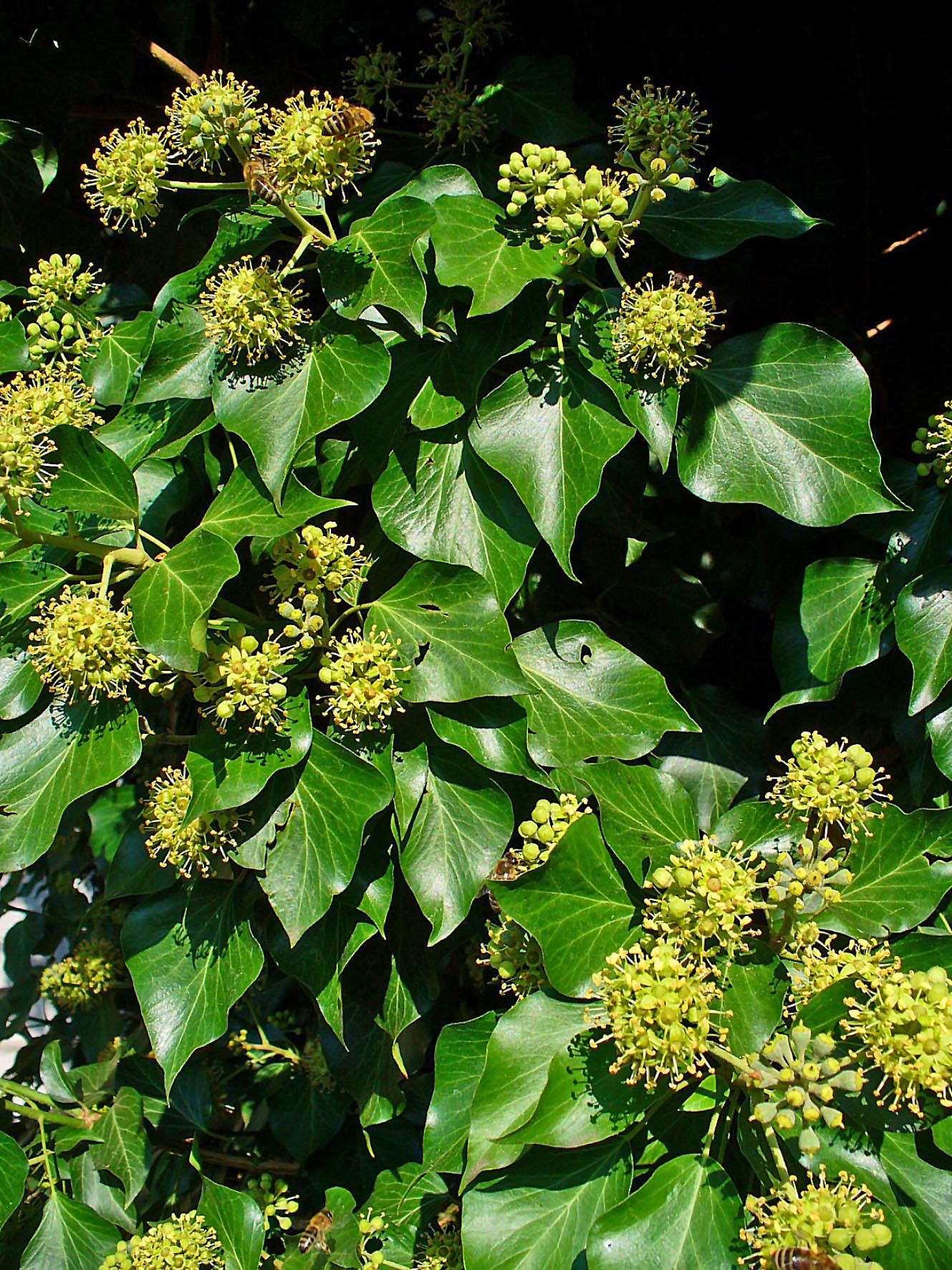 Hedera helix, Araliaceae, Common Ivy, inflorescences; Karlsruhe, Germany. The fresh, fully developed not woodened sprouts before or at the begin of bloom are used in homeopathy as remedy: Hedera helix (Hed.)